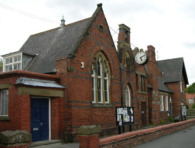 Haxby Memorial Hall.